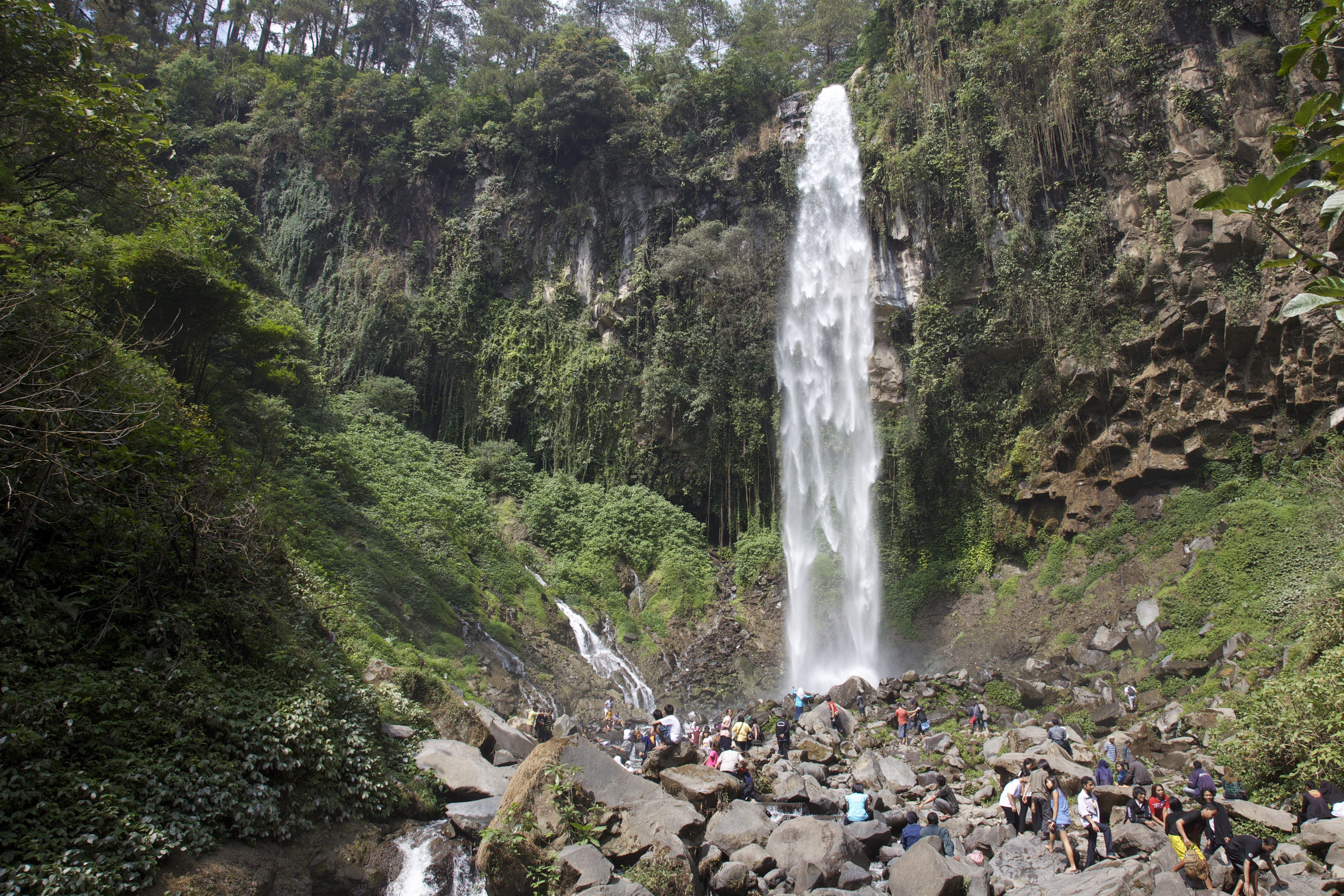 Grojogan Sewu Waterfall in Tawangmangu, Surakarta, Java, Indonesia.